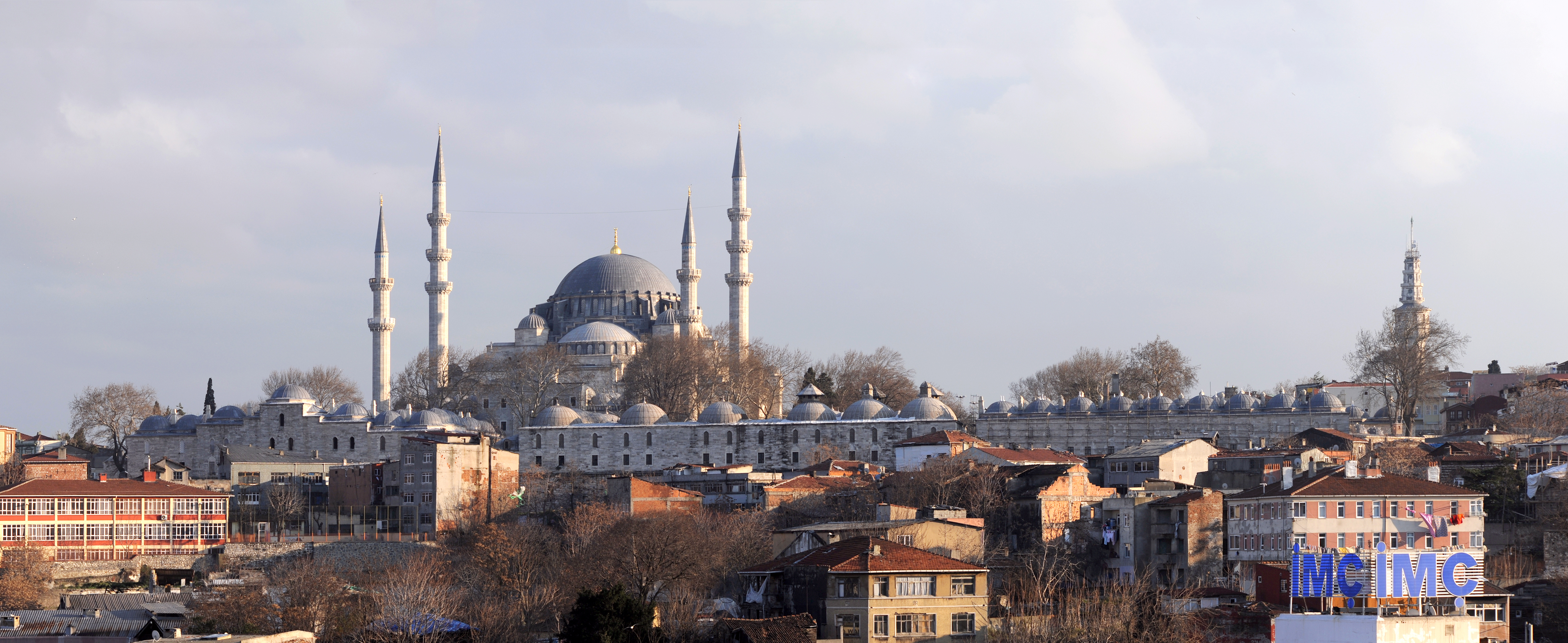 Panoramic image of Süleymaniye Mosque, Istanbul, Turkey.